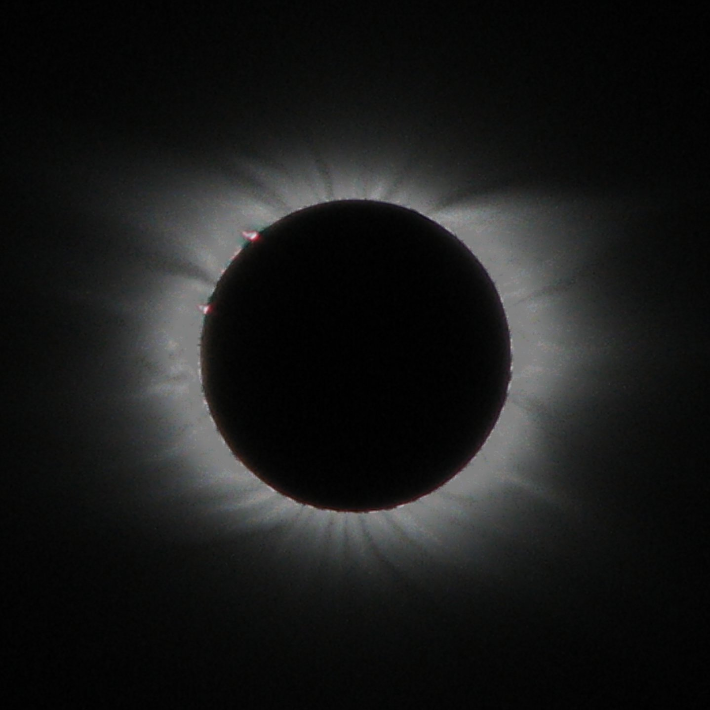 This is a composite of several photos at different exposures